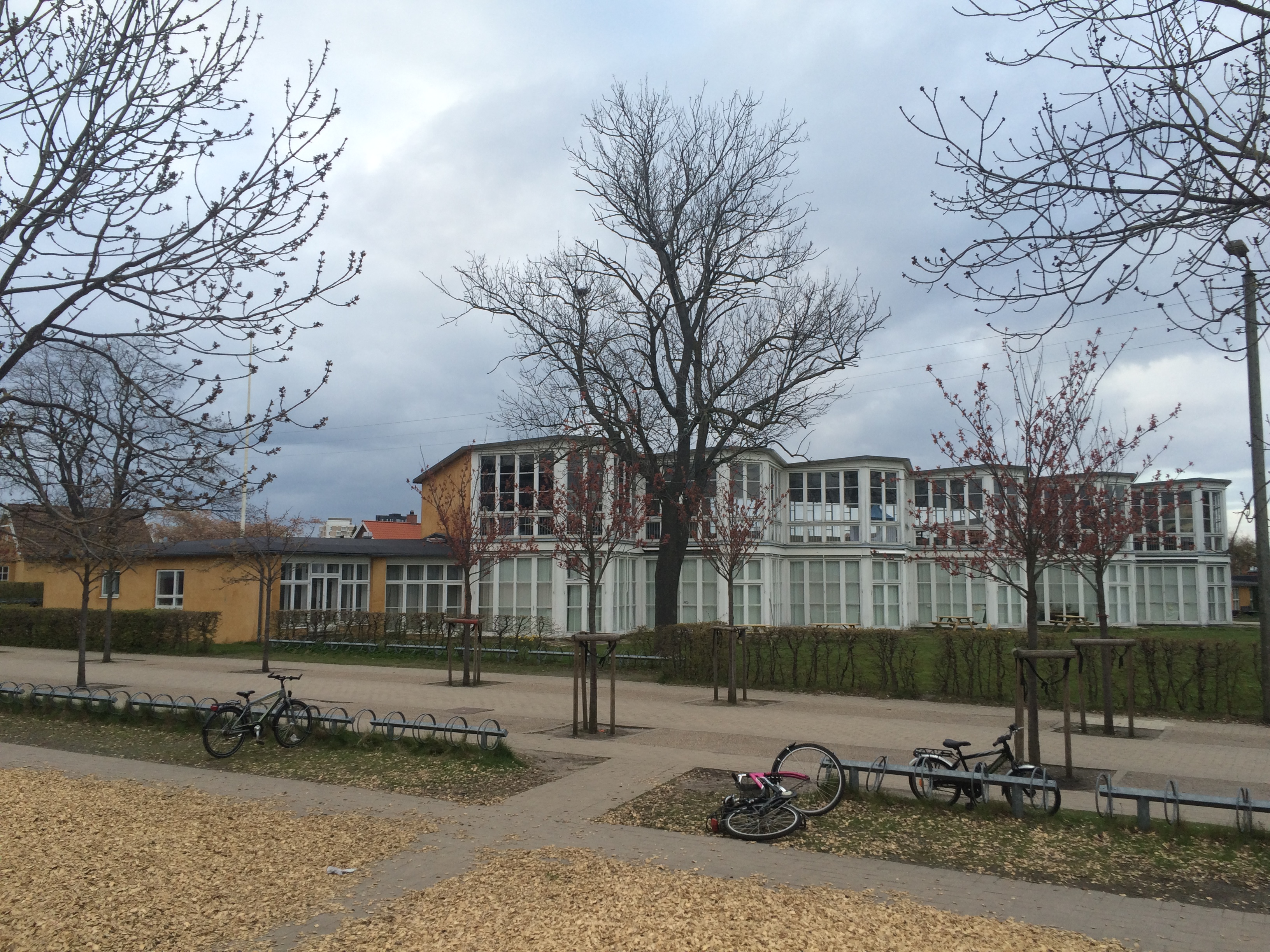 Skolen ved Sundet, a public school in Copenhagen, Denmark